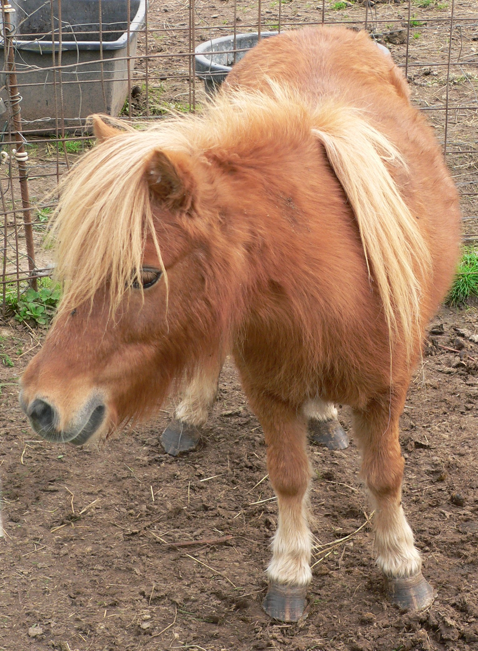 A pony